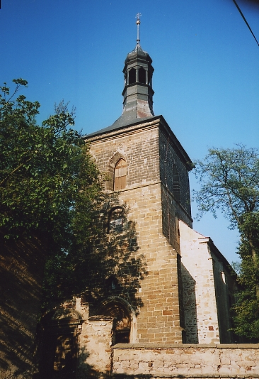 Village of Kmetineves